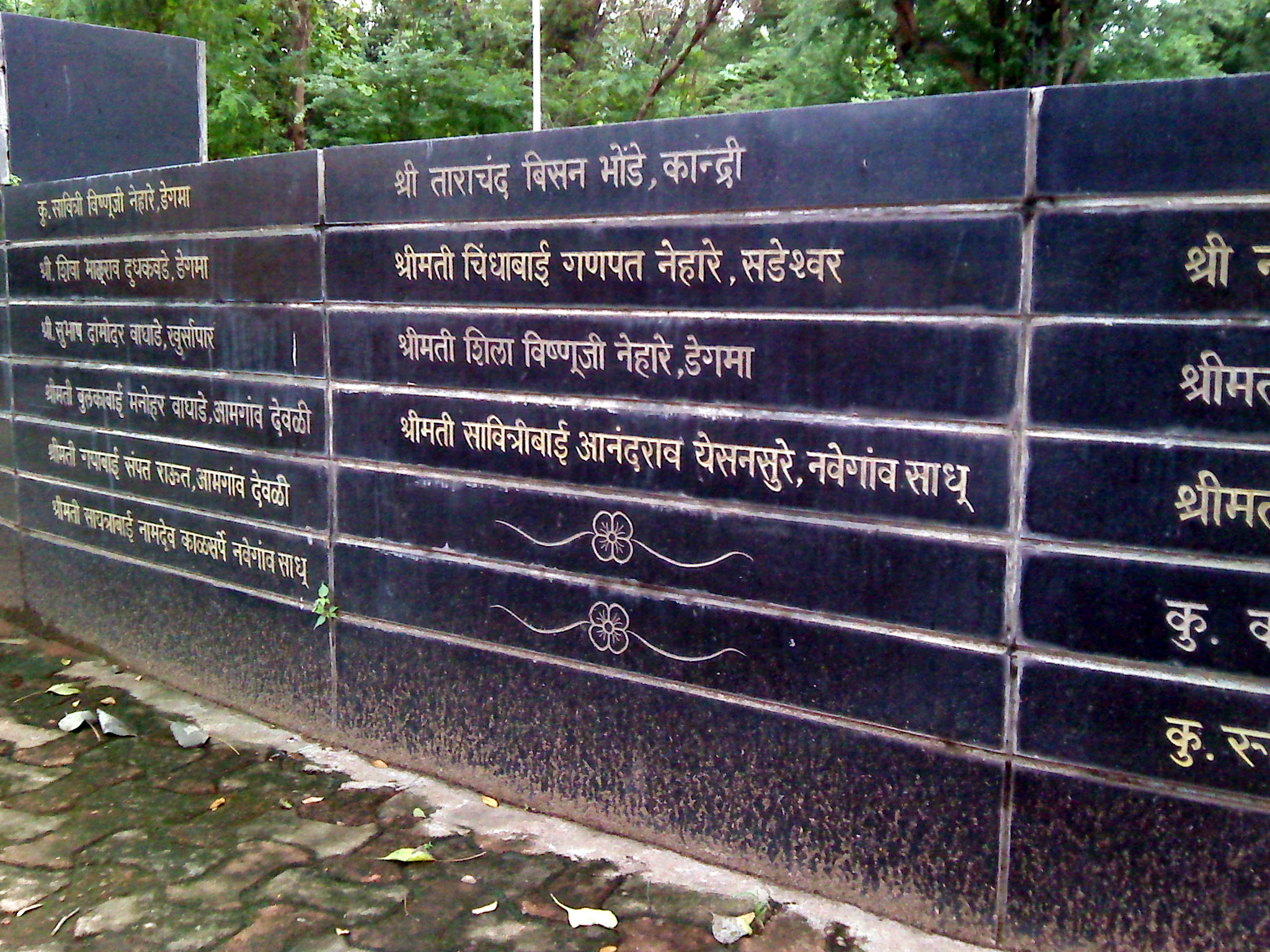 Plaque showing names of victims of Adivasi Gowari Stampede, 1994 at Shahid Gowari Memorial, Zero Mile, Nagpur